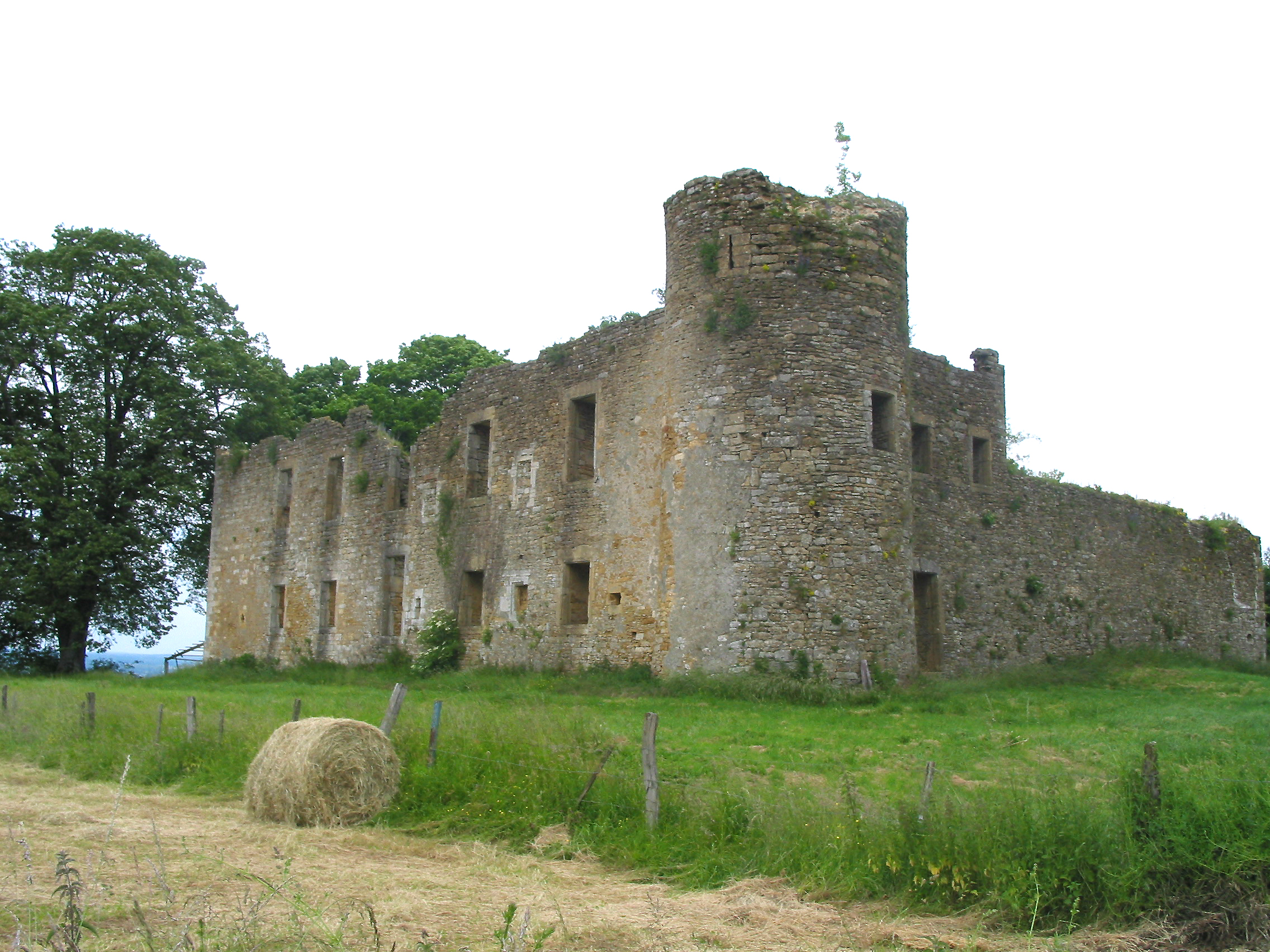 Montquintin, Belgium: "de Hontheim" castle ruins (15th–17th centuries).